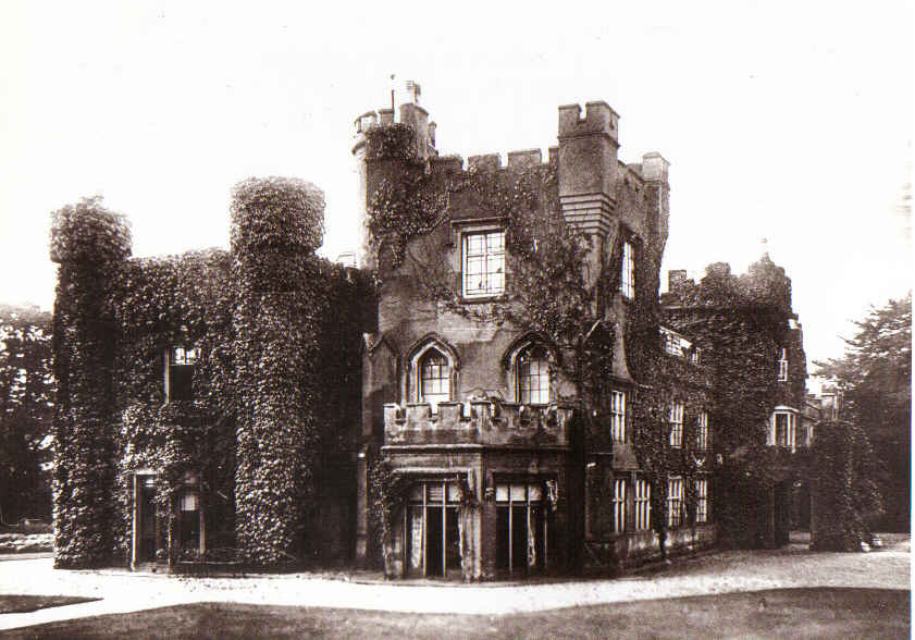 A photo of Weddington Castle in Nuneaton, Warwickshire